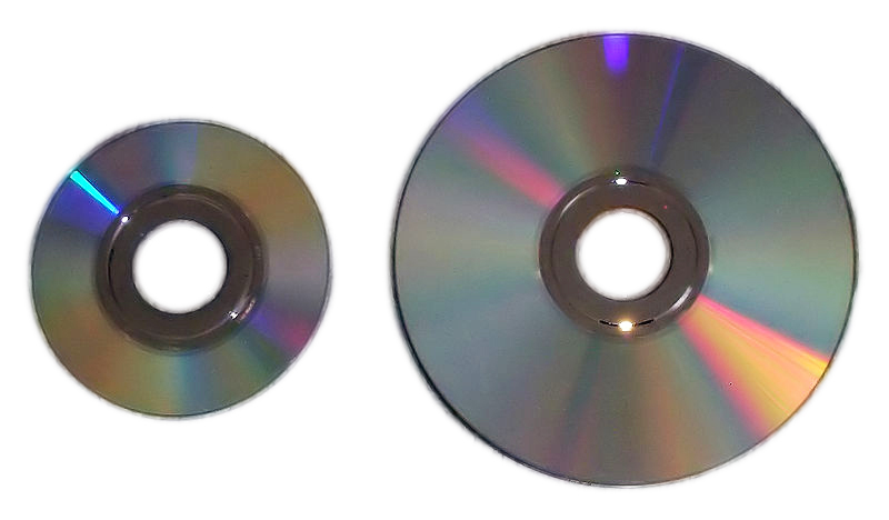 Picture of GCN DVD (left) and Wii DVD (right)